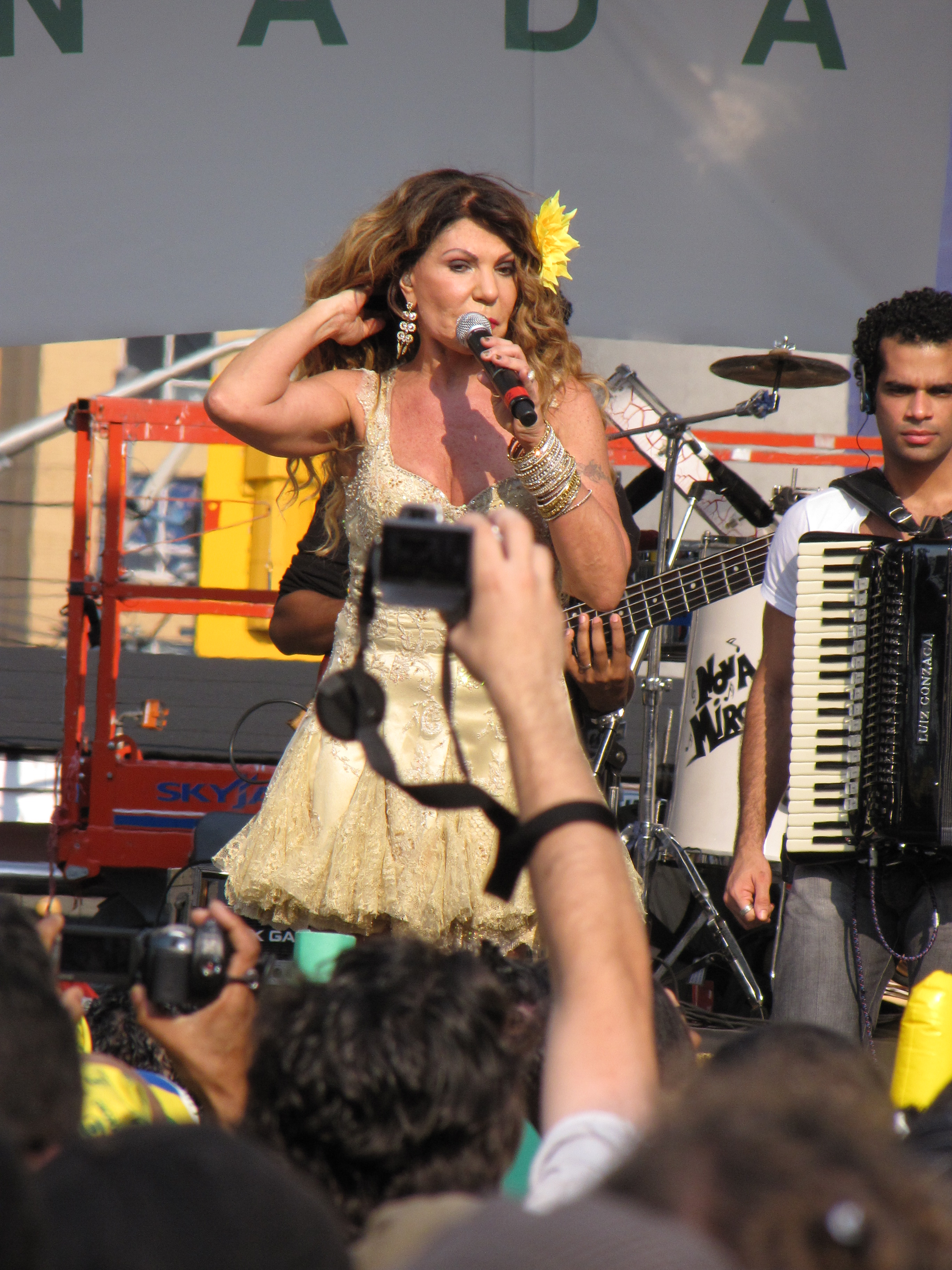 Elba Ramalho in concert in Toronto